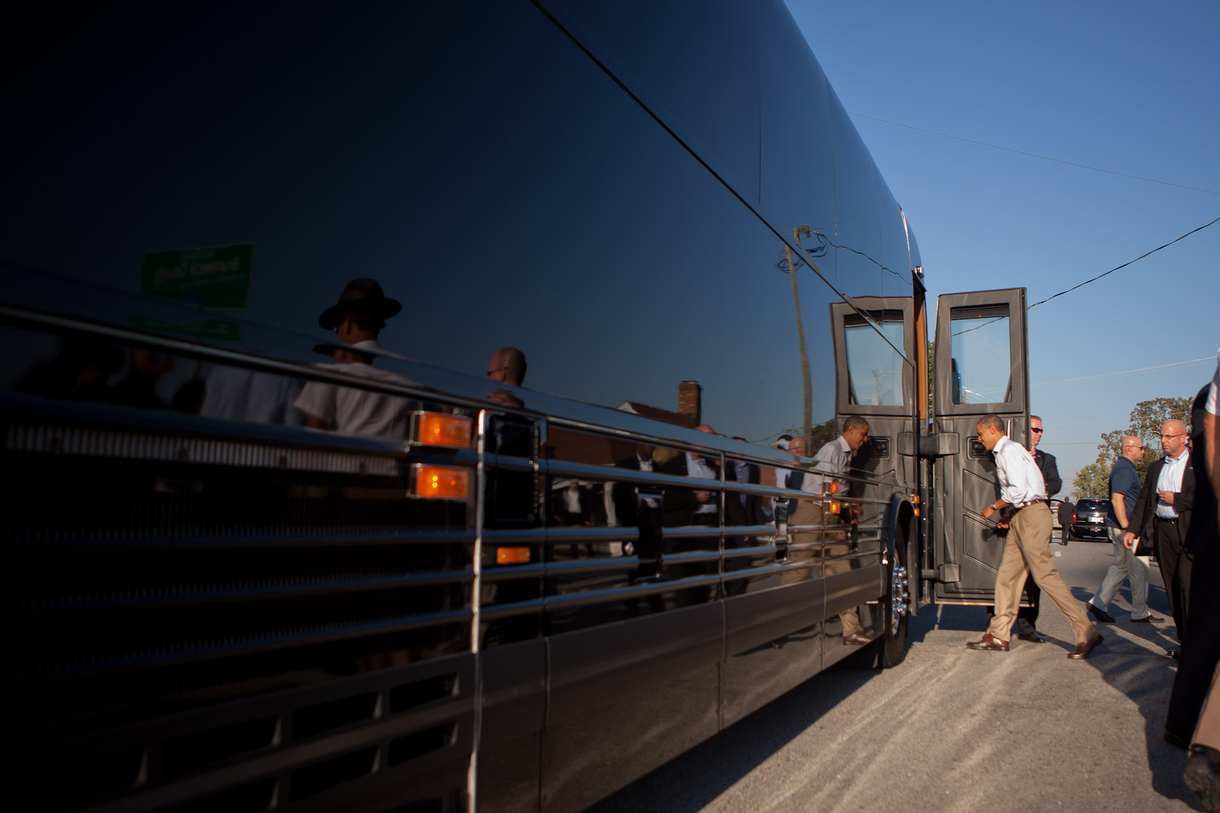 President Barack Obama boards his bus after stopping to greet people in Brodnax, Va., Oct. 18, 2011.